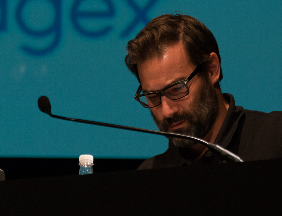 Adam Buxton at dConstruct 2013.